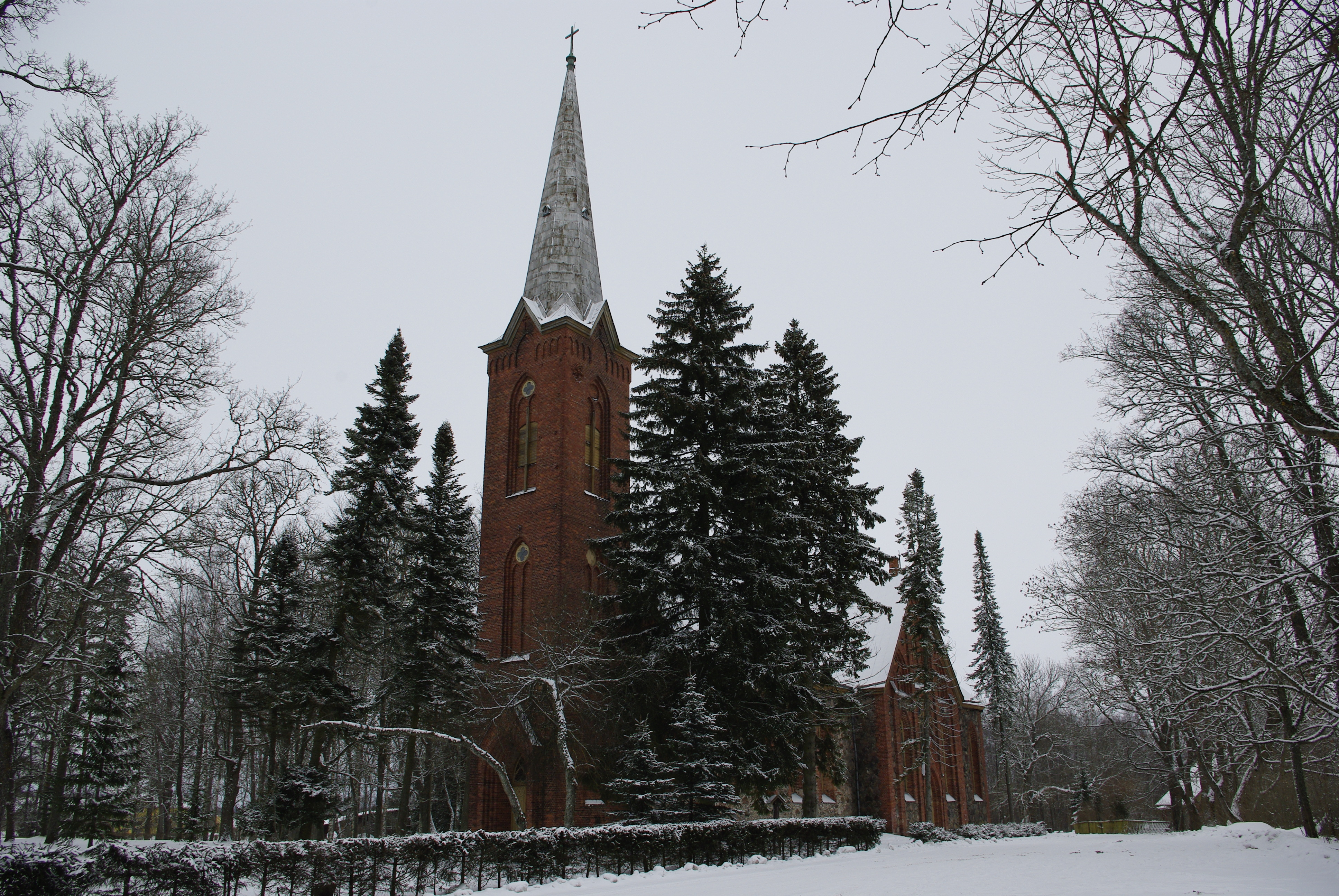 Äksi Church, Estonia